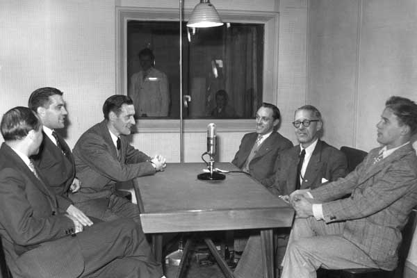 Gunnar Gren, Gunnar Nordahl, Nils Liedholm, Ivar Eidefjäll, Sven Jerring and Dan Ekner. Everyone but radio presenter Sven Jerring being an elite football player.